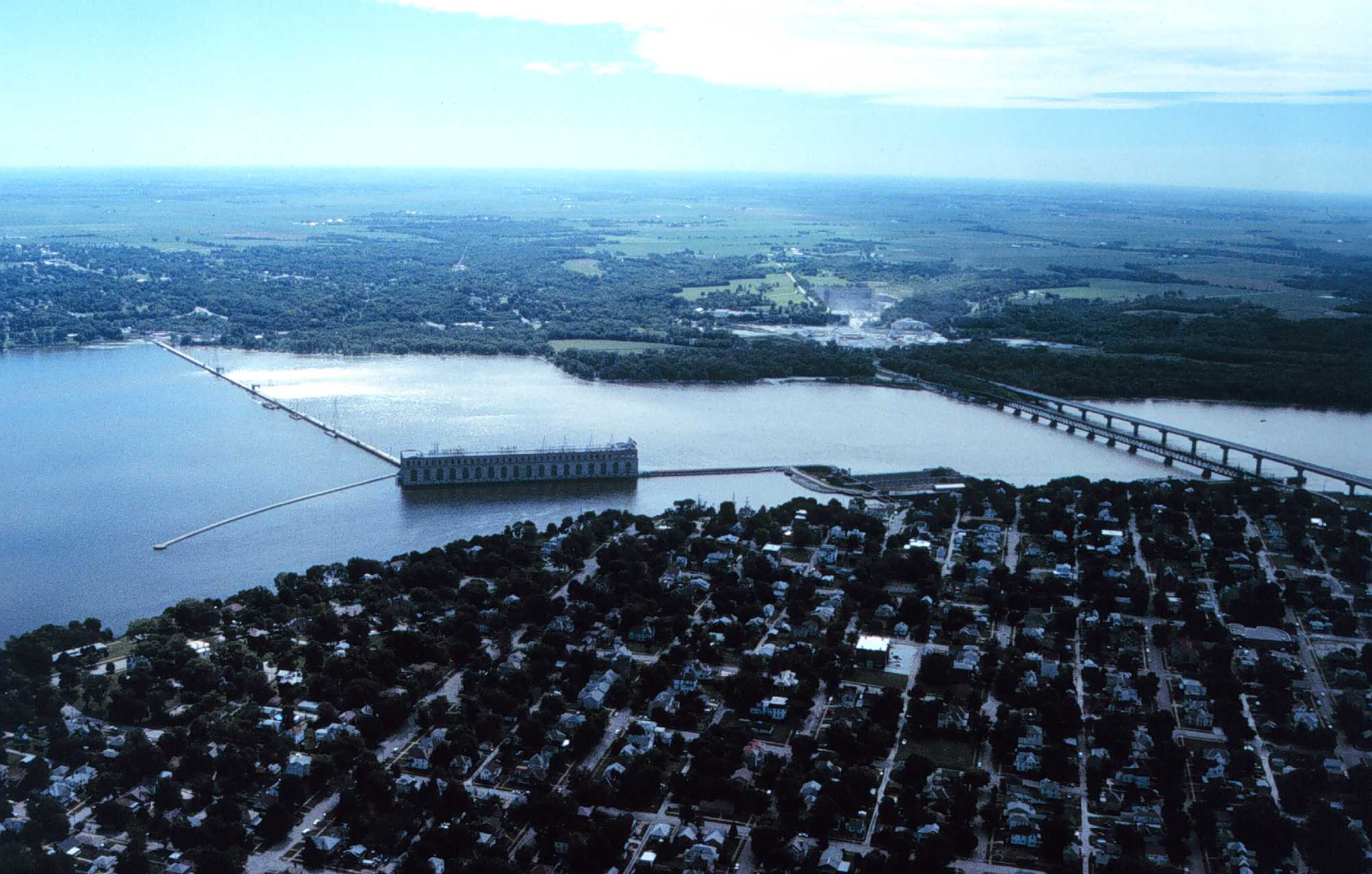 Mississippi River Lock and Dam number 19 with Keokuk Rail Bridge and Keokuk-Hamilton Bridge downstream.